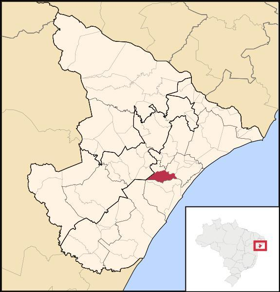 Map of Sergipe highlighting Laranjeiras